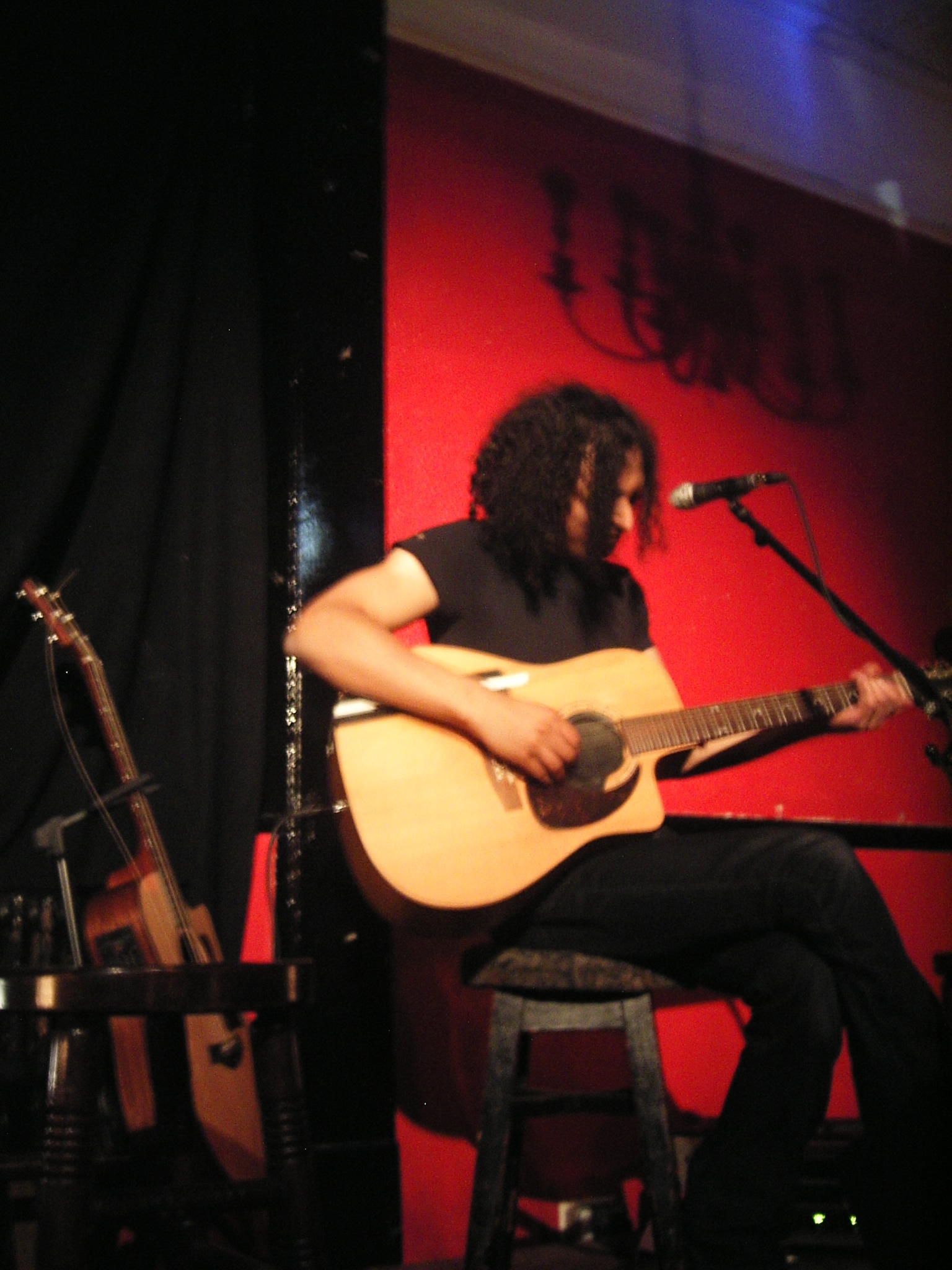 Martin Grech plays a wonderful acoustic set at the Barfly (Enterprise) Camden.